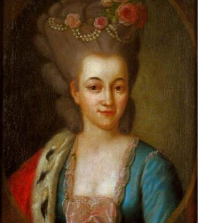 Princess Caroline of Waldeck and Pyrmont (1748-1782), duchess of Coruland and Semigallia